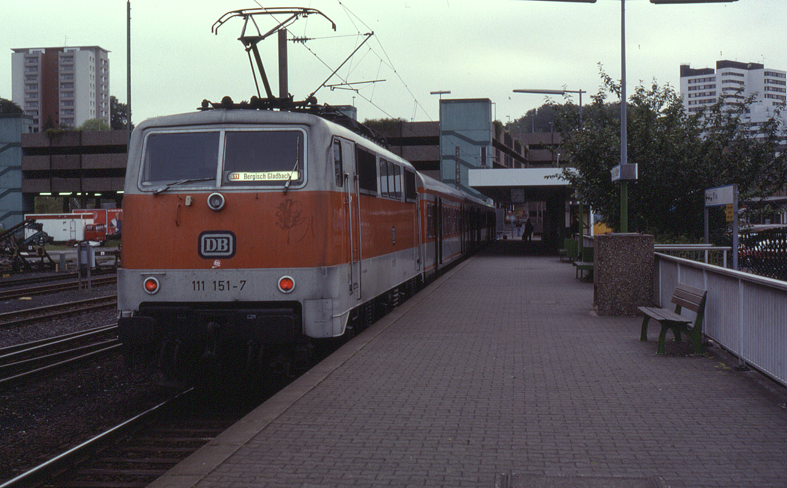 111.151 seen on Ruhr-Rhein SBahn line S11 at the terminus station of Bergisch-Gladbach on 27 May 1989.